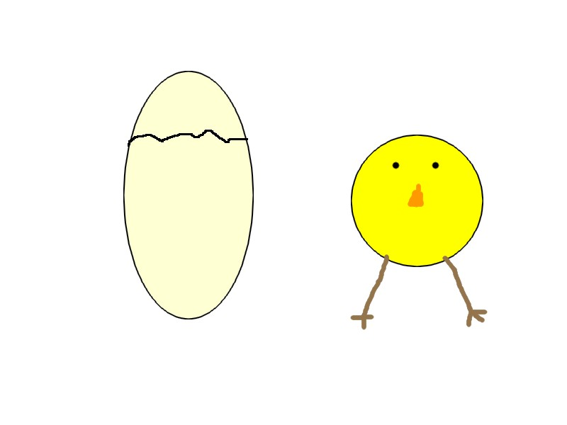 An egg and a chicken which I have painted.